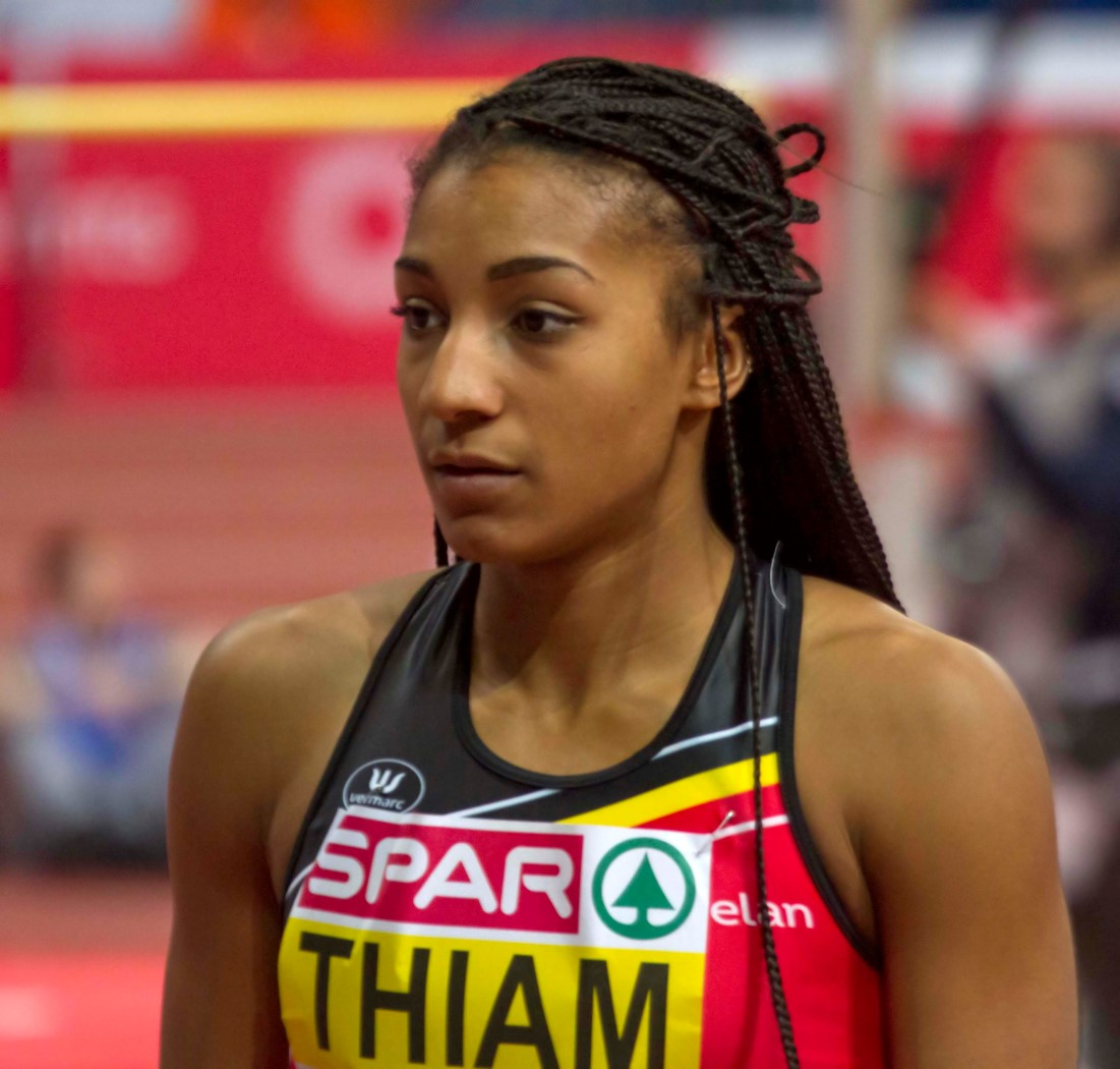 _141 pent hoog thiam